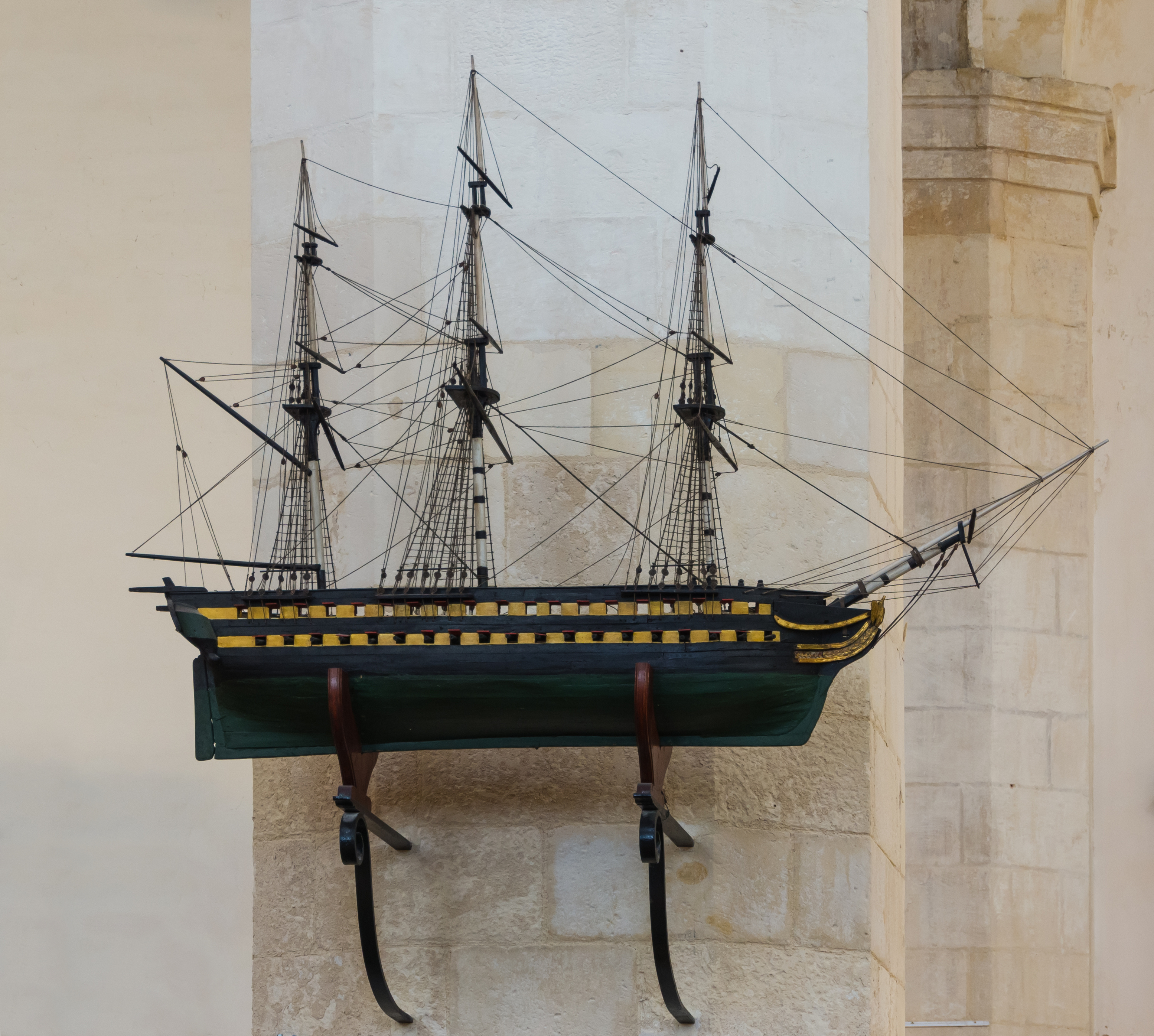 A merchant ship model as an ex-voto. The "Augustin de la Rochelle", ca 1810. Church Saint-Sauveur, La Rochelle, Charente-Maritime, France.